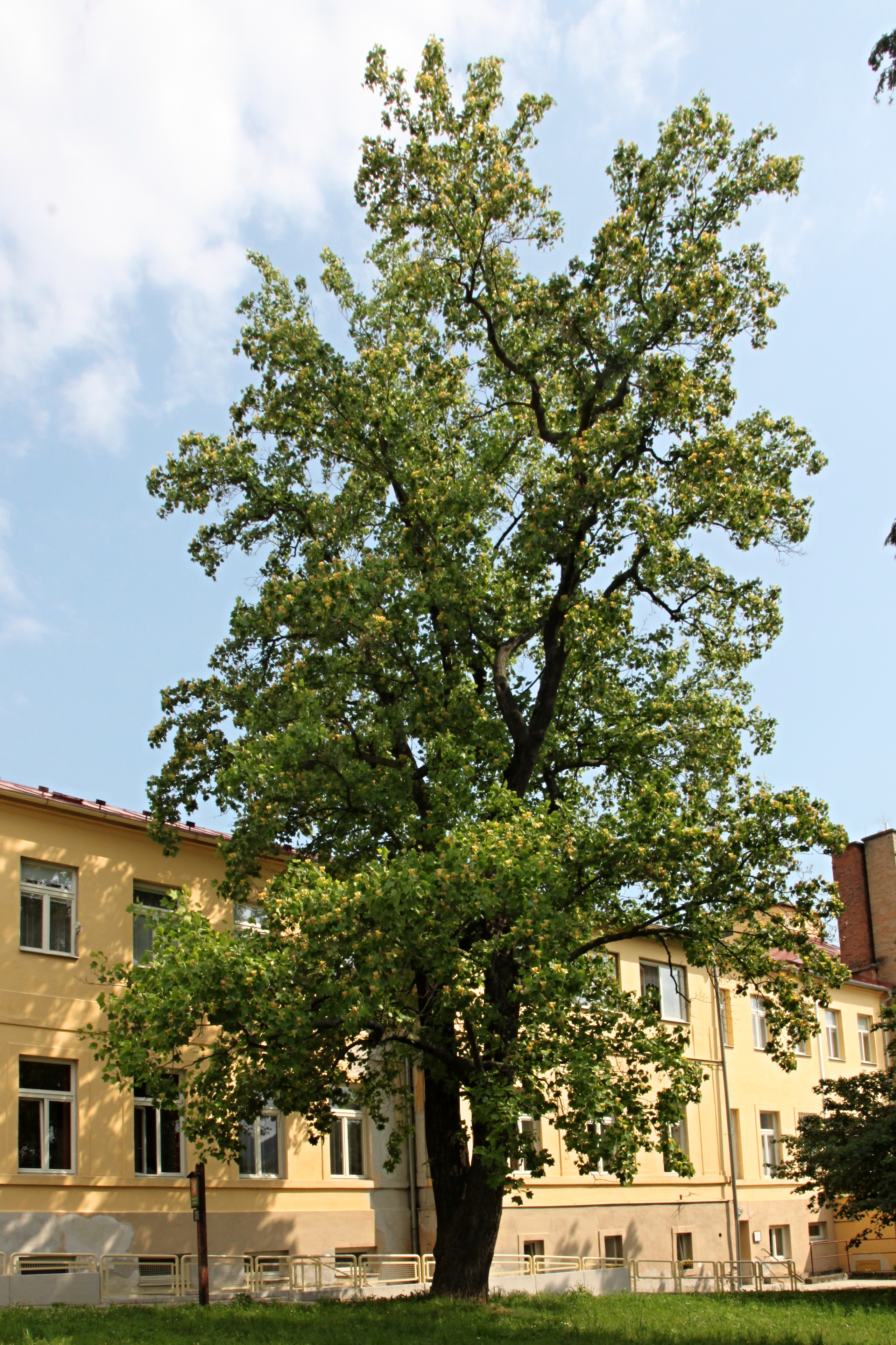 Tulip tree (Liriodendron tulipifera L.) in blossom. Prachatice, South Bohemia, Czechia.